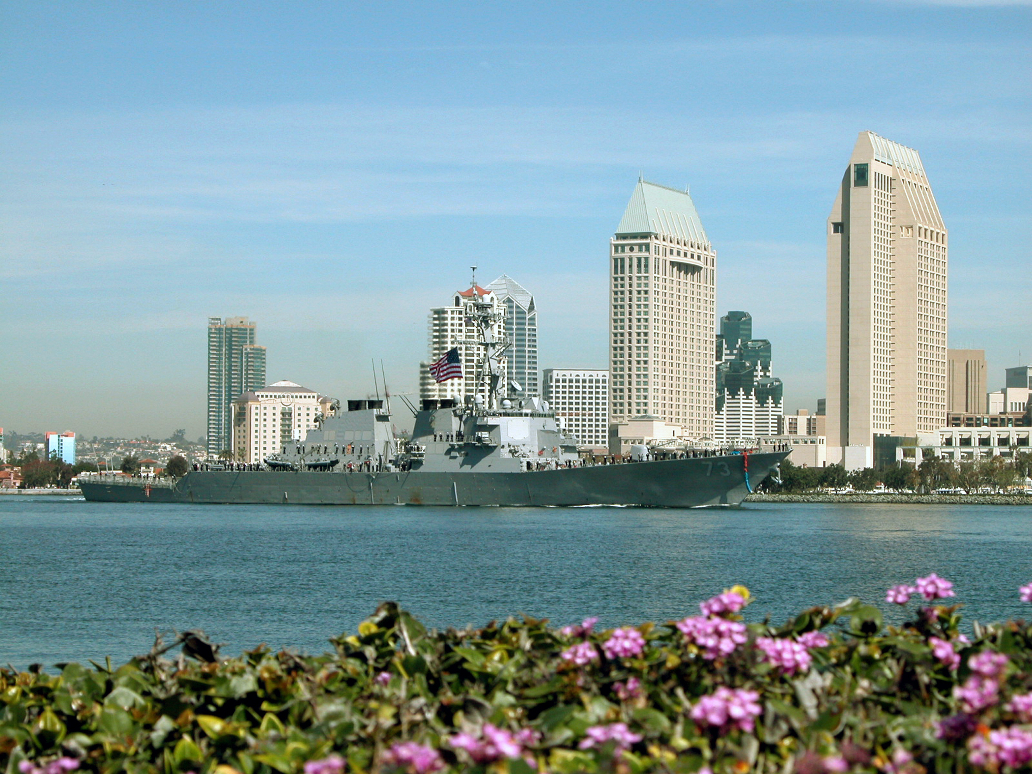 Coronado, California (9 March 2004) – The guided missile destroyer USS Decatur (DDG-73) makes it's way into San Diego Harbor, returning home with the USS Peleliu (LHA-5) part of Expeditionary Strike Group One (ESG). ESG-1 deployed for six and a half months conducting missions in support of Operations Iraqi Freedom and Enduring Freedom.